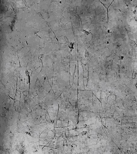 The so called Alexamenos graffito. It represents a satyrical representation of the Christian worship and it dates back to a period between the year 85 to the 3rd century.